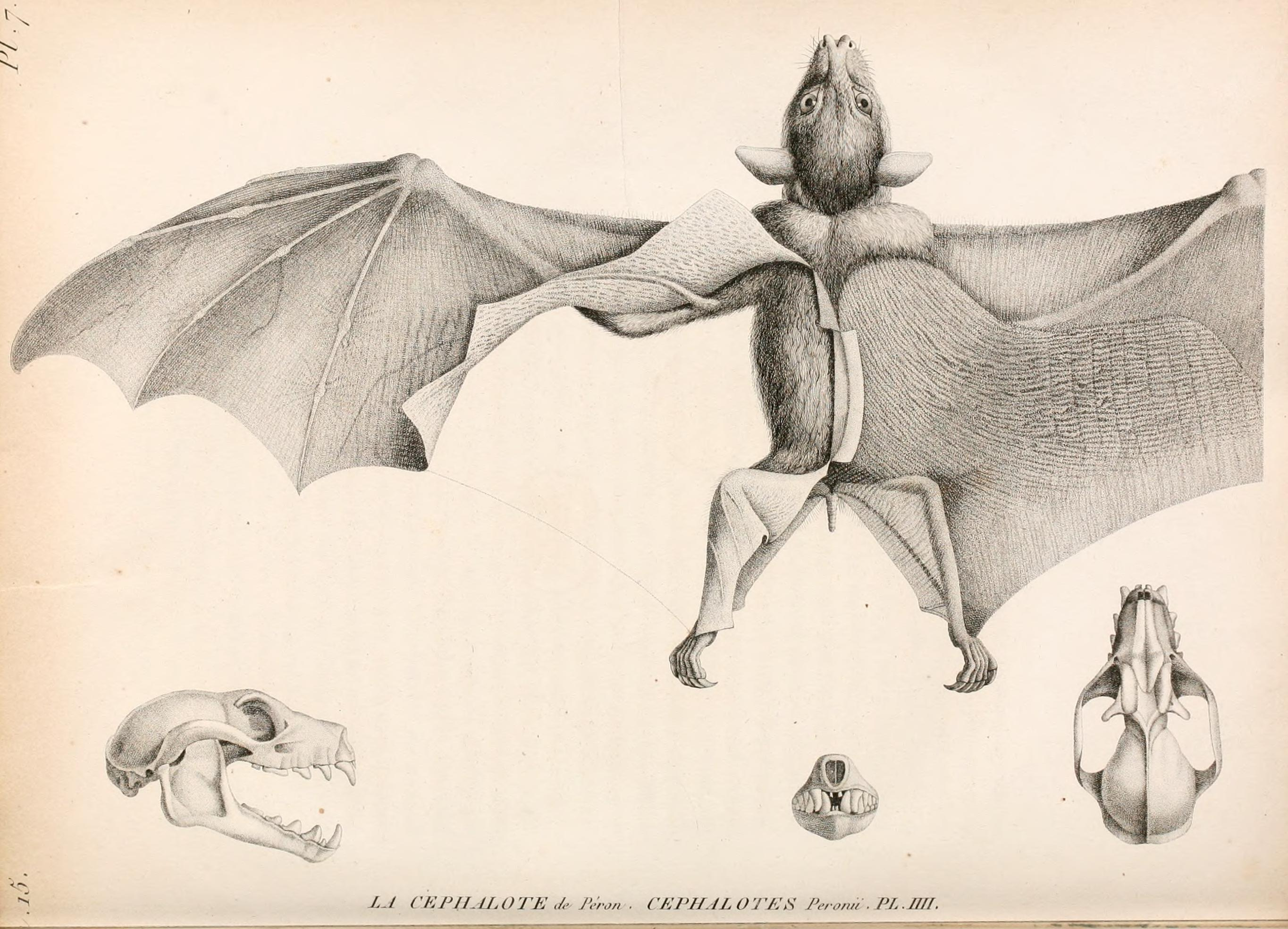 Title: Annales du Muséum national d'histoire naturelle Year: 1810 (1810s) Authors: Muséum d'Histoire Naturelle (Paris) Subjects: Publisher: Paris Text Appearing Before Image: ■' % *' Text Appearing After Image: '